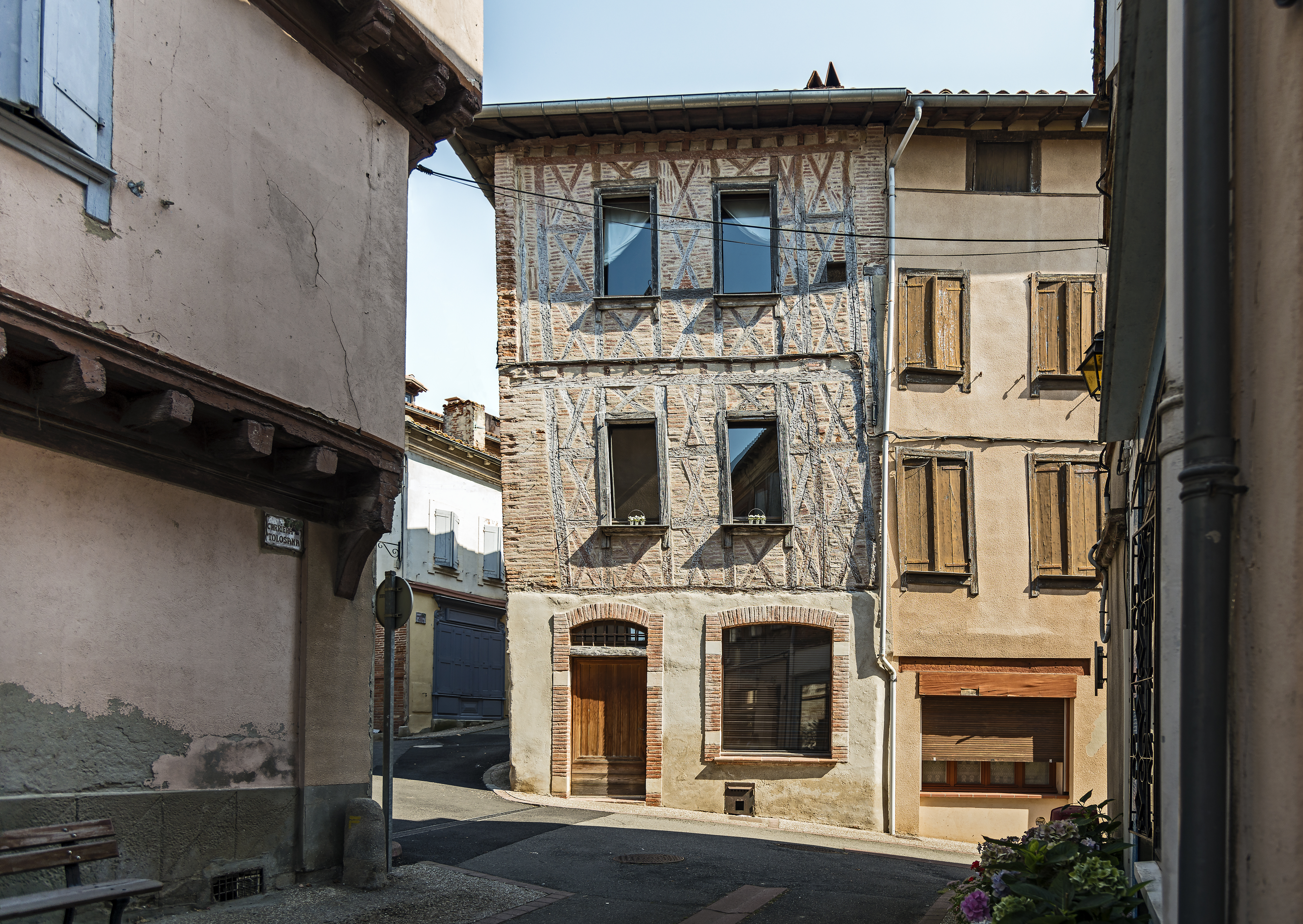 Verfeil, Haute-Garonne, France - Facade of a house of the sixteenth century called "maison du Lieutenant de Juge"